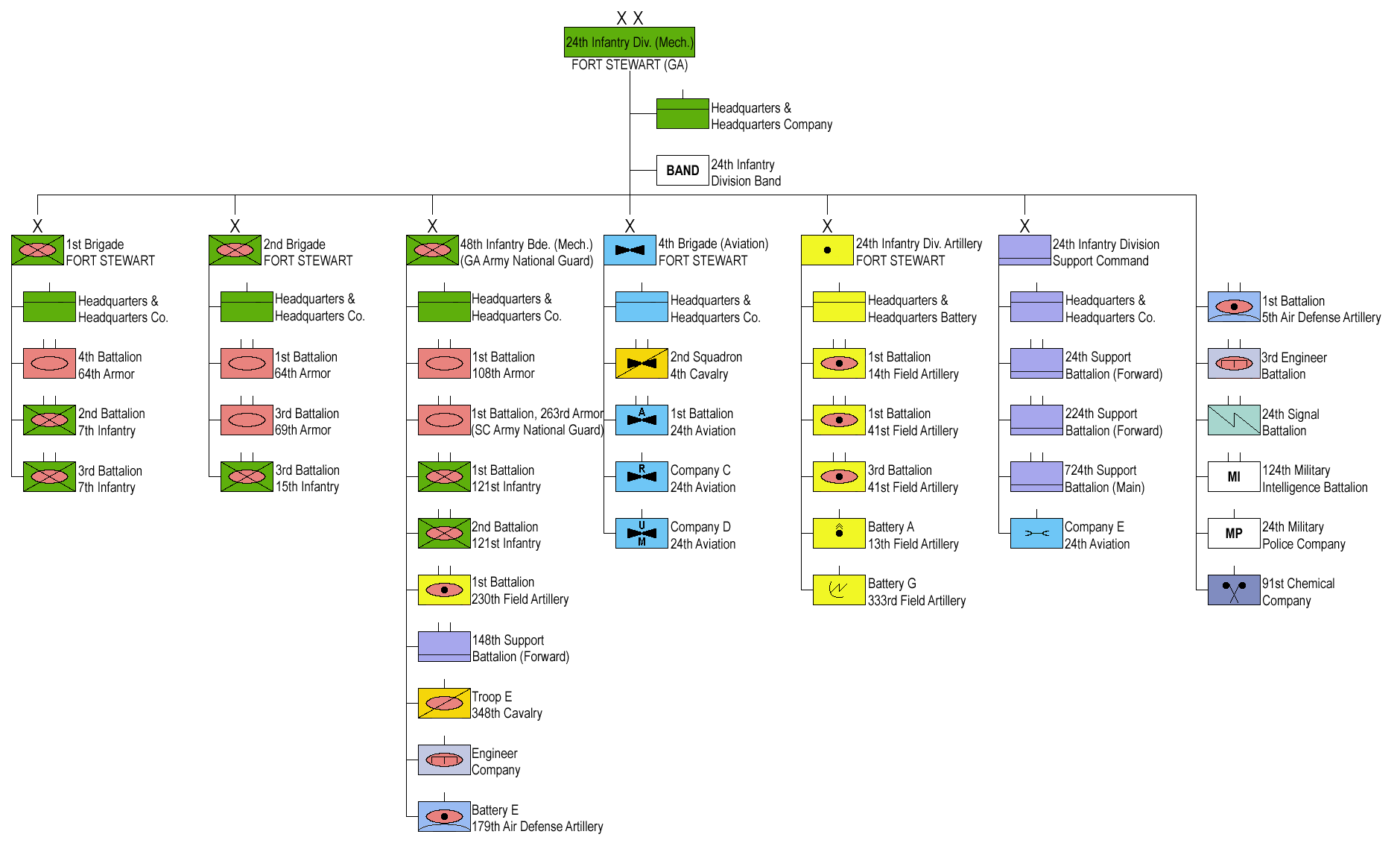 US Army 24th Infantry Division Structure in 1989